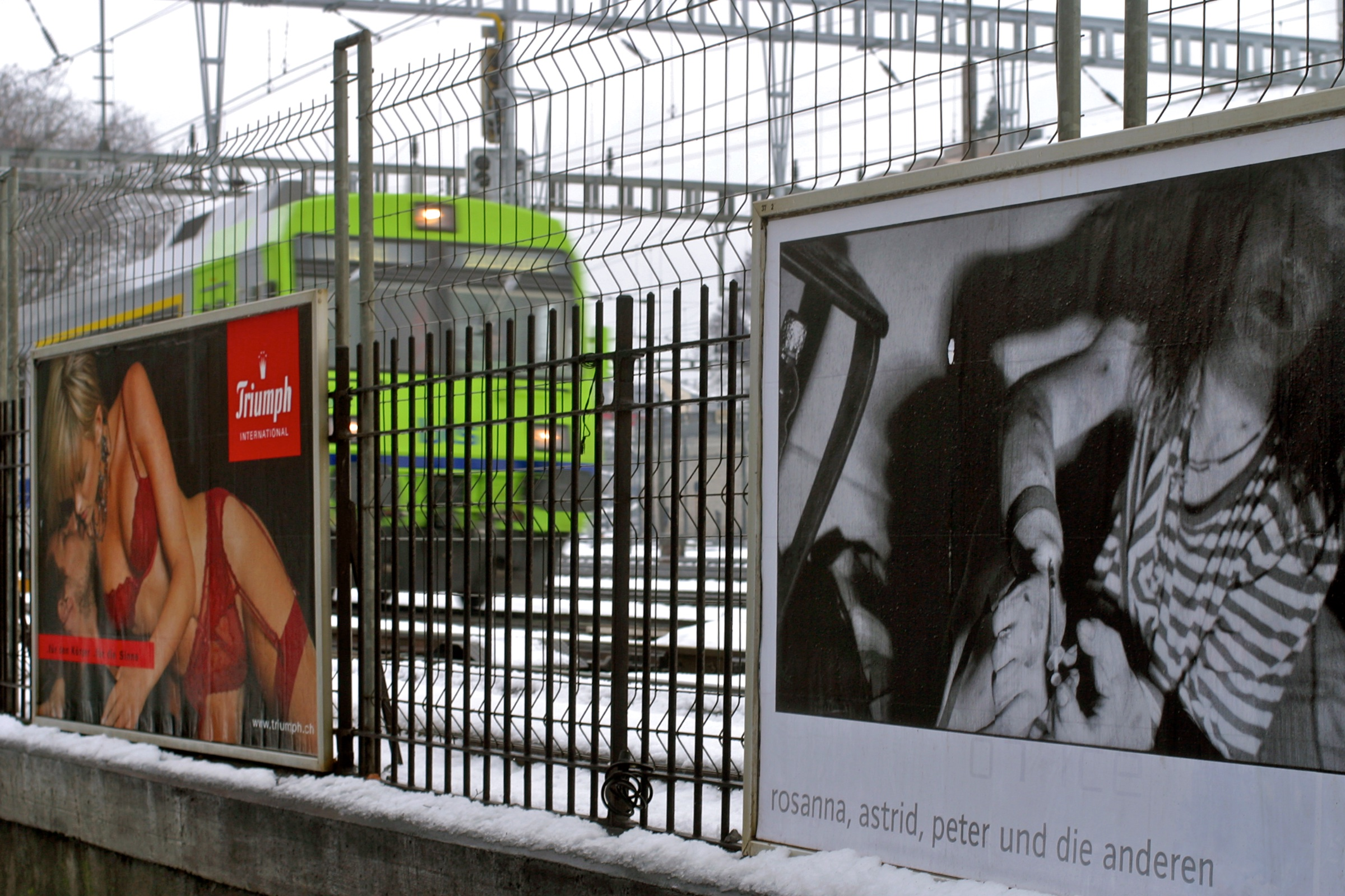 Installation in 5 Schweizer Städten auf öffentlichen Werbeflächen der APG, Dezember und Januar 2004/05